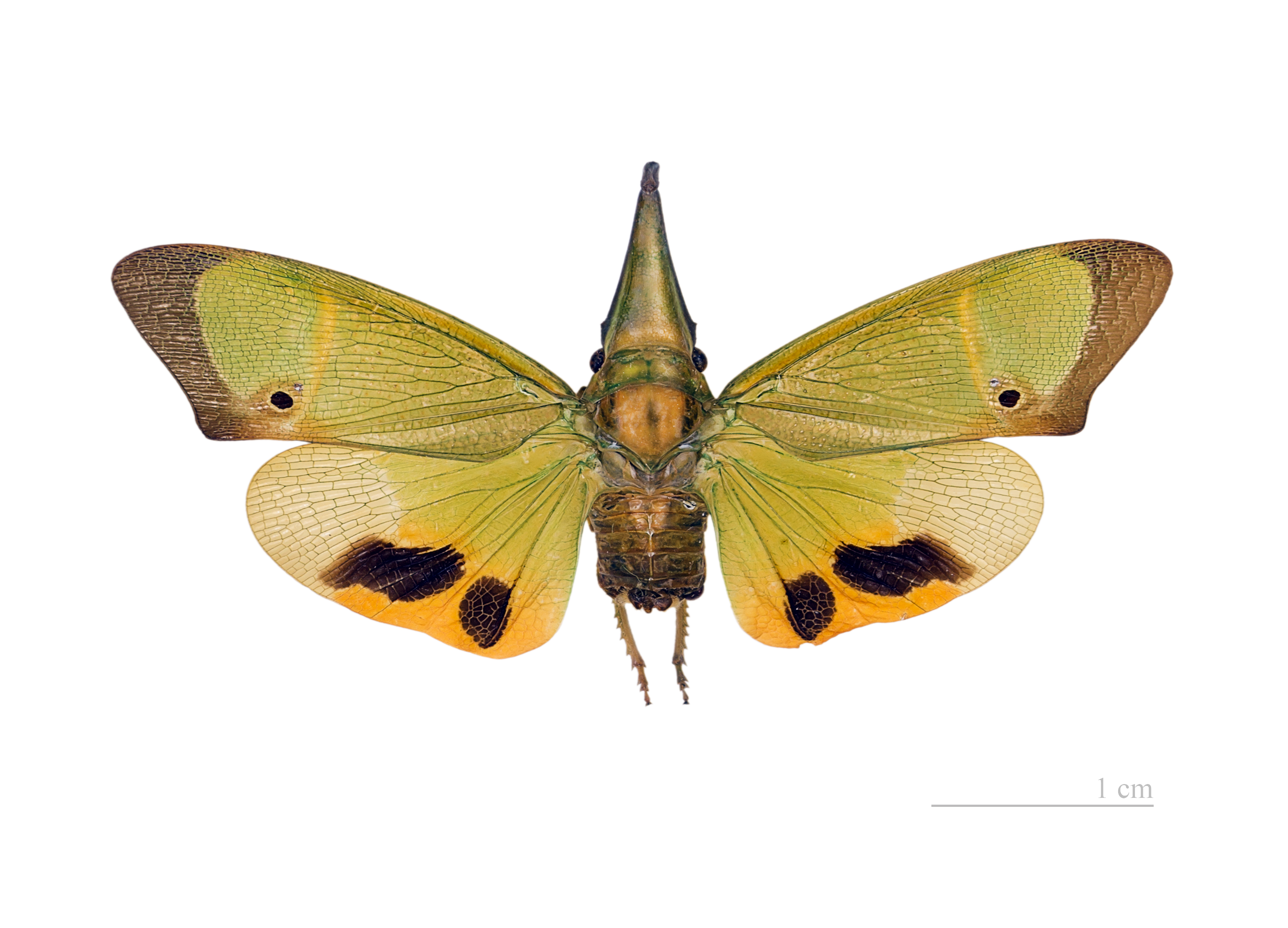 ♂ - Flying posture. Locality : “RK4,5 route Cacao”, French Guiana